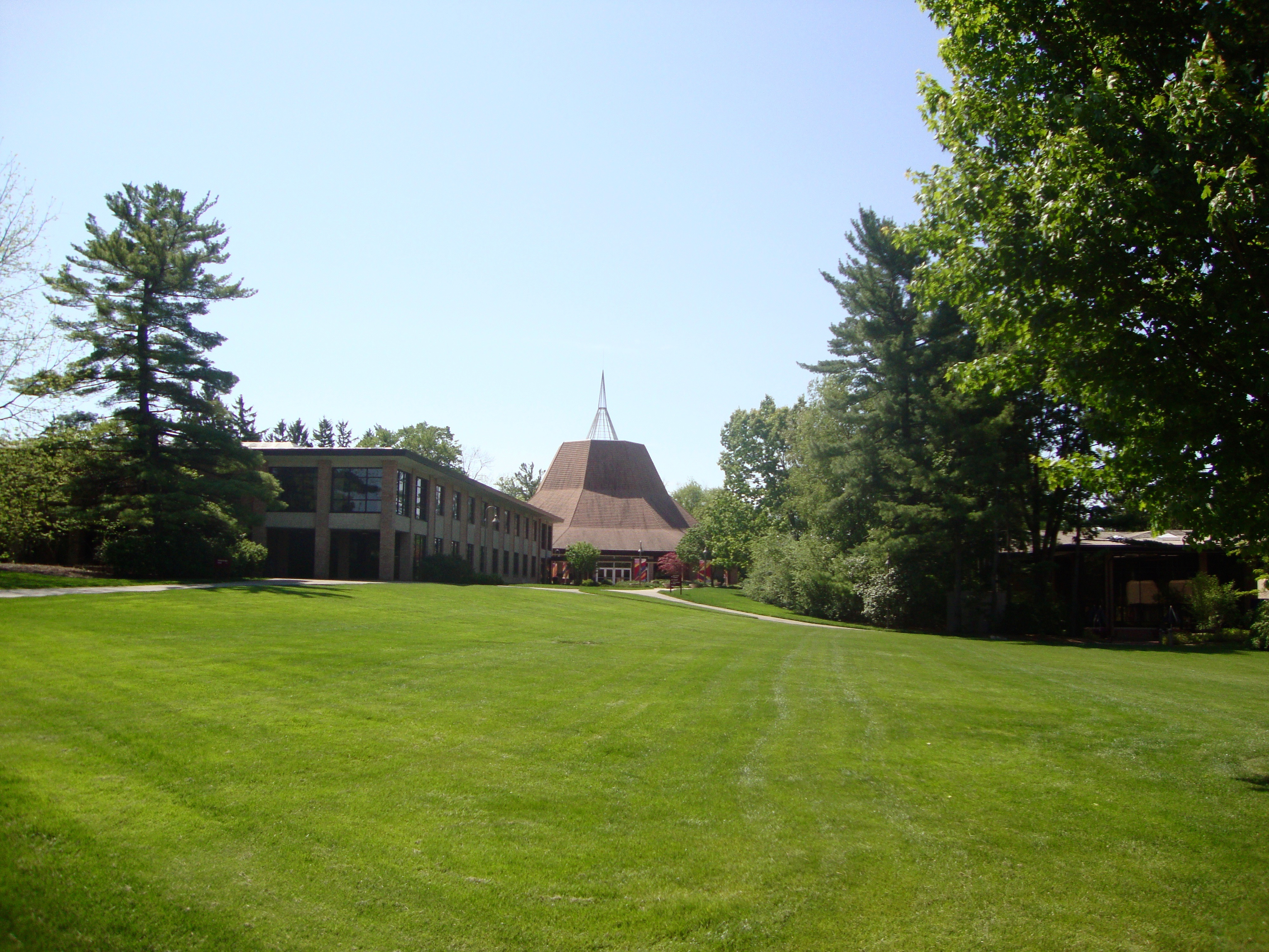 Calvin College Chapel, pictured from Science Building. Hiemenga Hall is visible on the left.